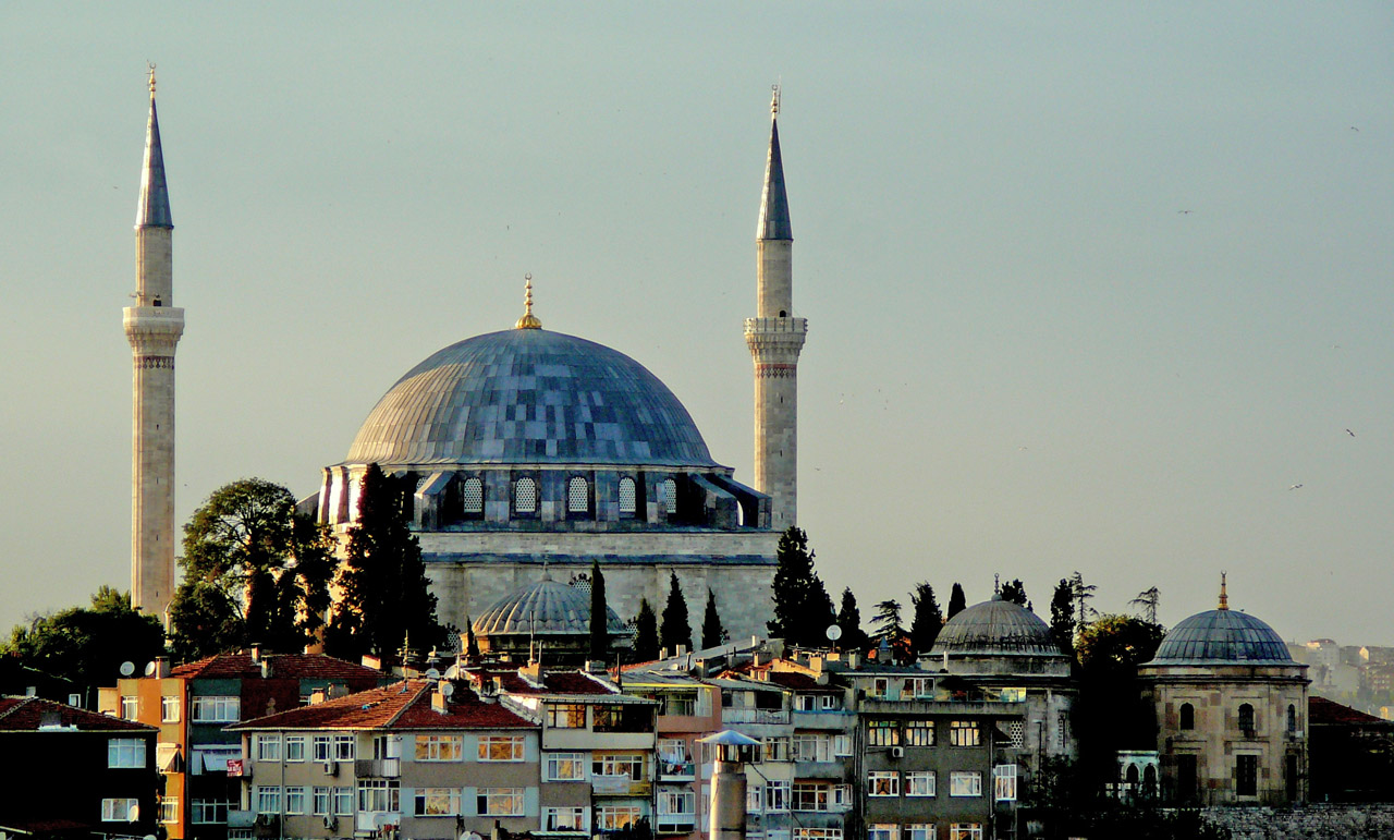 Yavuz Sultan Selim Mosque